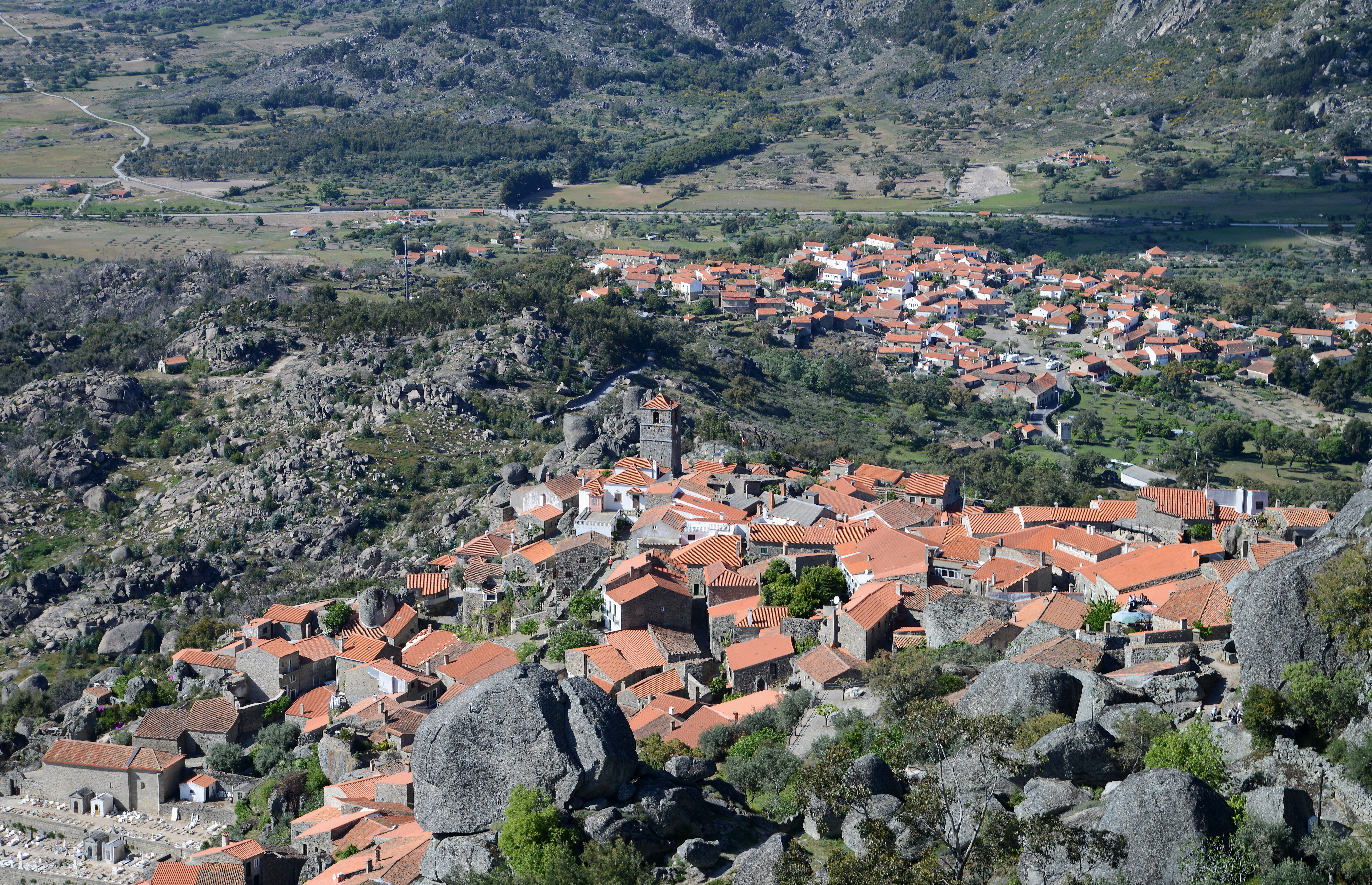 The village of Monsanto, Portugal. View from near the castle